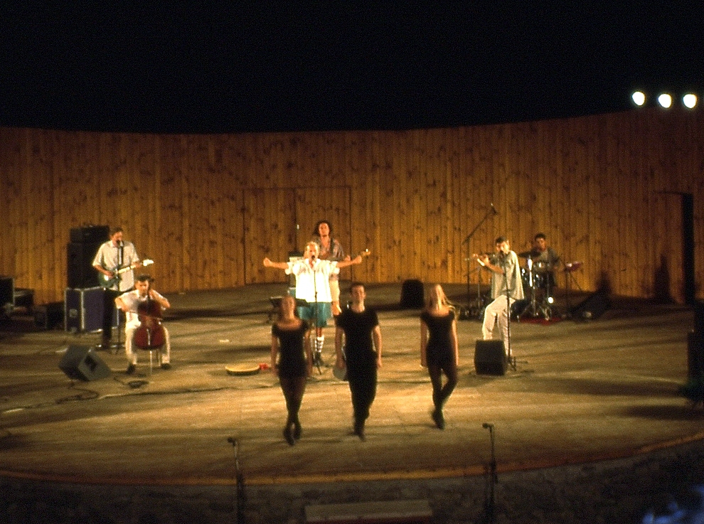 M.É.Z. Hungarian Irish-Scottish music band concert photo